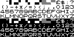 The Sinclair ZX80's character set as rendered by the machine itself in its system font. Scaled 2× for clarity. Includes all displayable values allowed in the video memory, known as the display file: 0–63 (0016–3F16) and the corresponding inverse video code points 128–191 (8016–BF16).